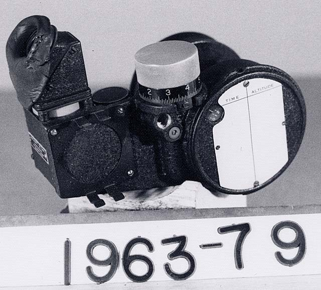 Pioneer Instrument Company Bubble Sextant, Mark III Model 3 Rationale Only available image, no loss of revenue in Pioneer Instrument Company